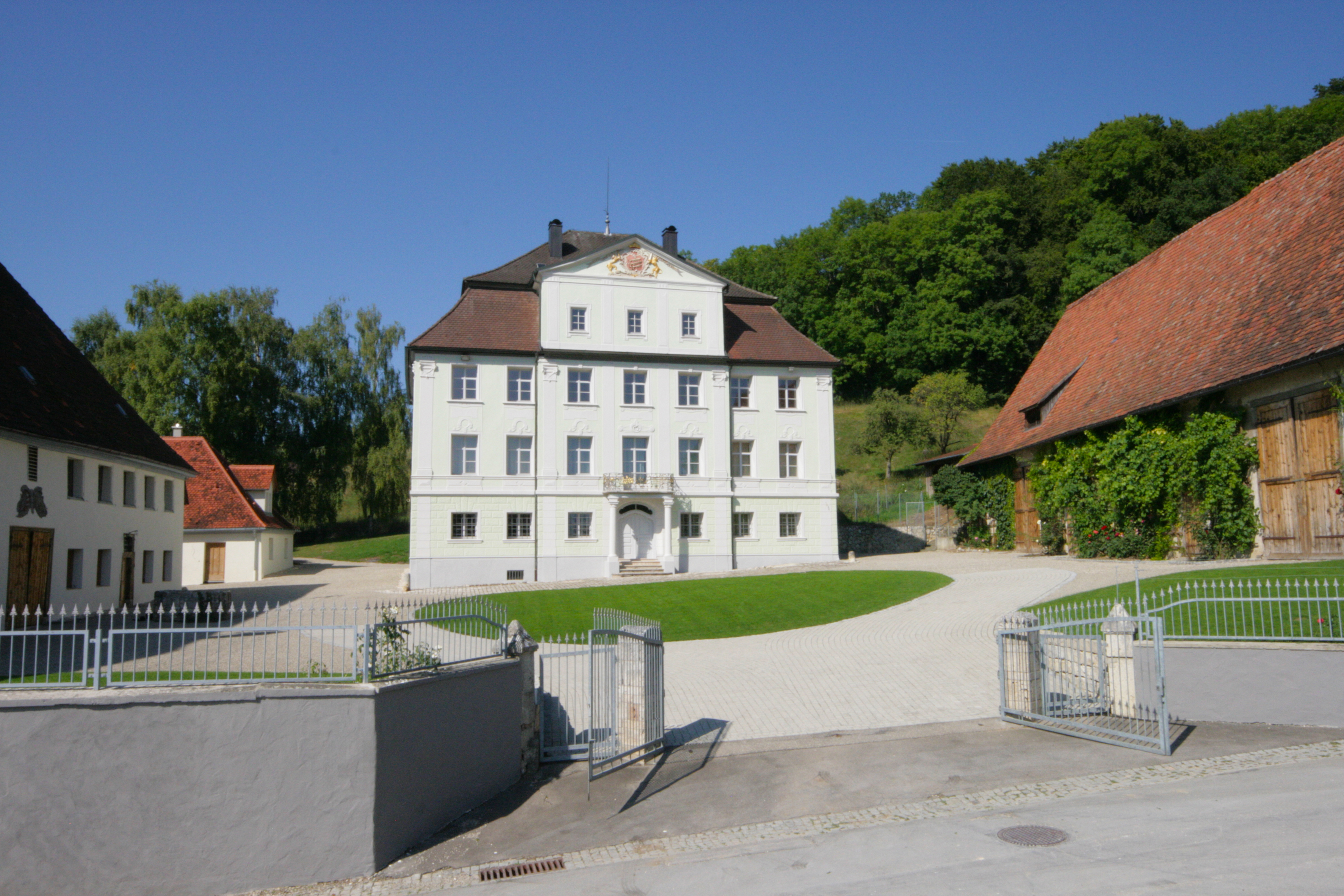 Granheim Castle with its surrouding buildings